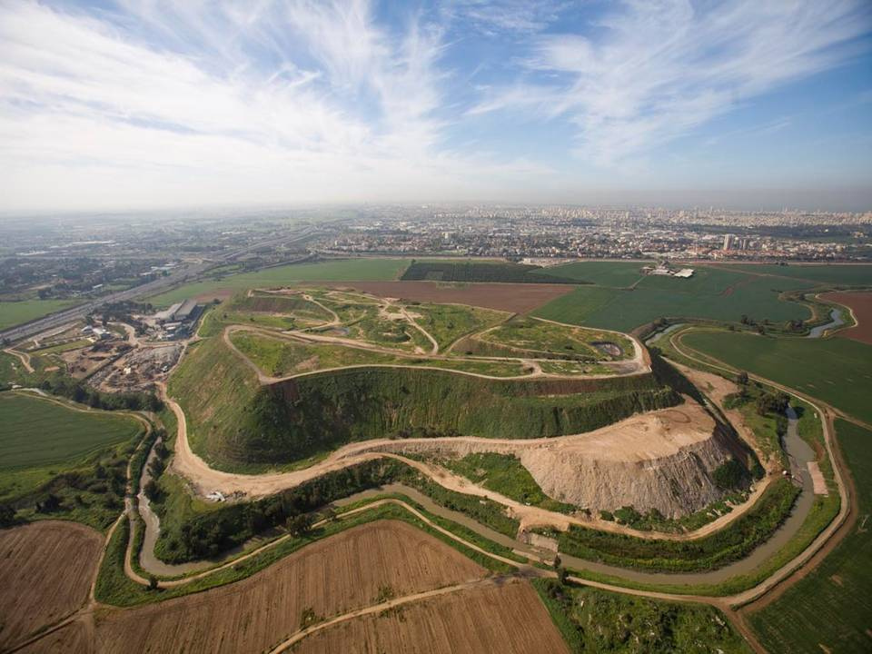 Ariel Sharon Park